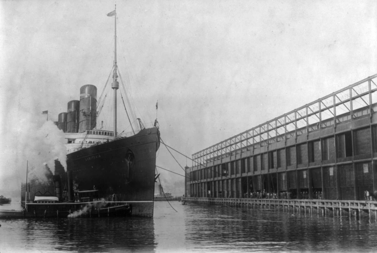 Photo of Lusitania arriving at Pier 54 in New York City in 1908. Original Bain caption, 'Lusitania coming to new pier'.